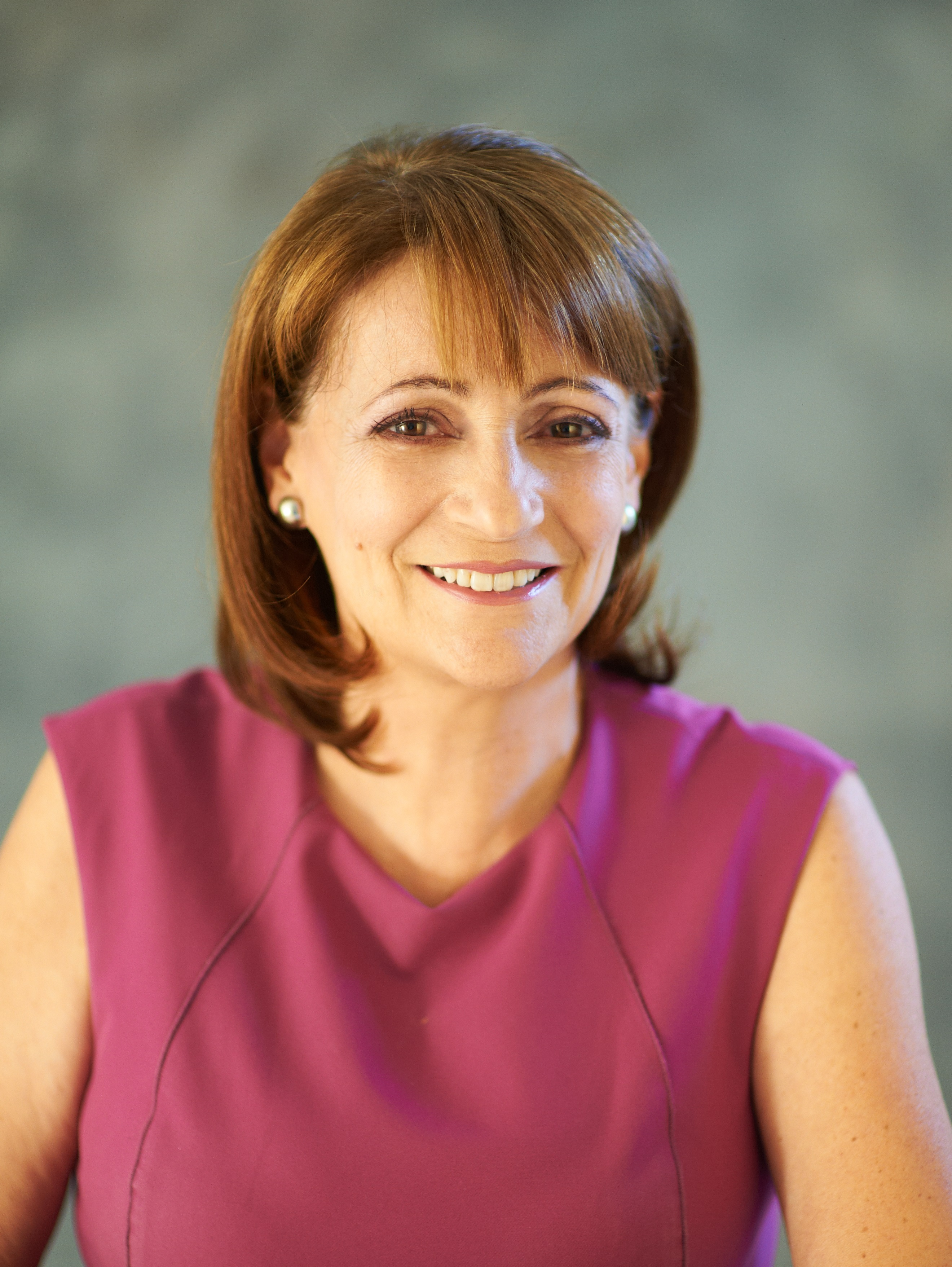 Councilor Jenny Hill, current Mayor of the City of Townsville. She is a microbiologist with a Masters Degree in Public Health and was the first woman to be elected as Mayor of Townsville in 2012, and was re-elected in 2016.